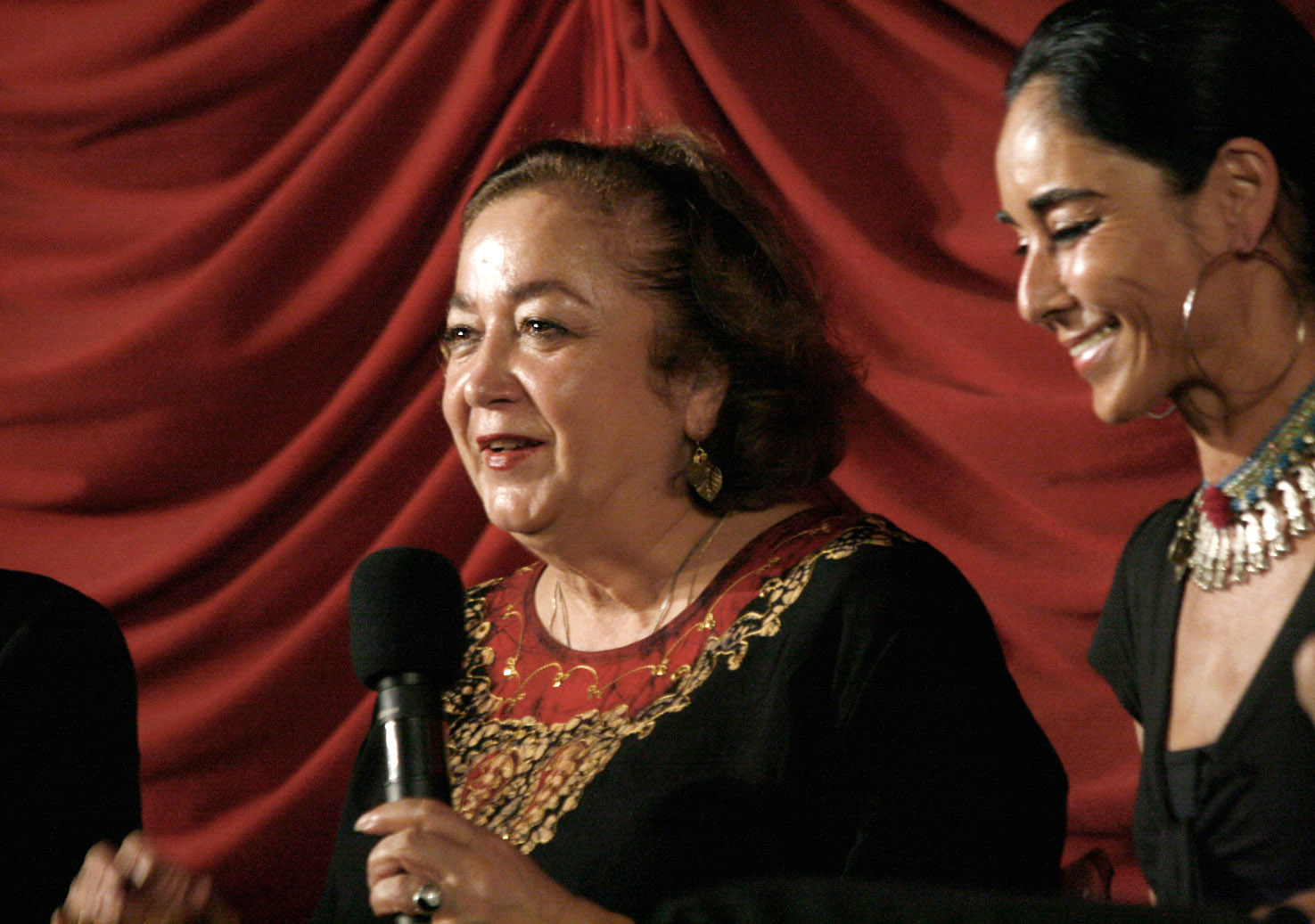 Shahrnush Parsipur and Shirin Neshat talking about Zanan bedun-e mardan (Women without men) at the Gartenbaukino in Vienna.